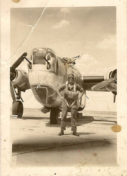 Ready for a big mission